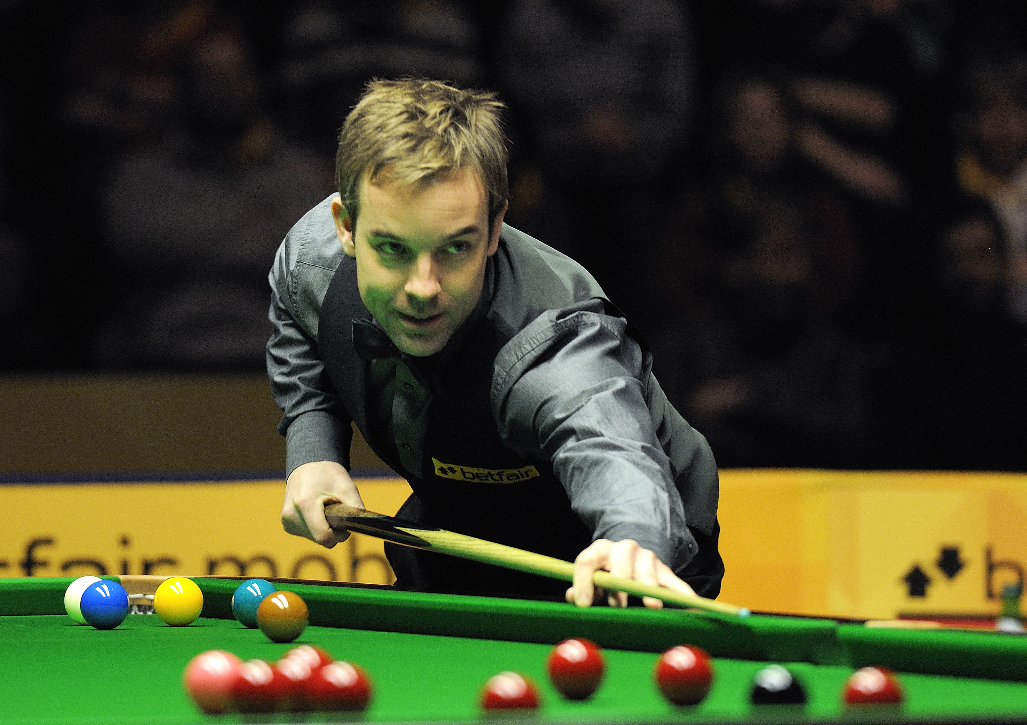 Picture taken in Berlin during the Snooker German Masters in 2013. Ali Carter.